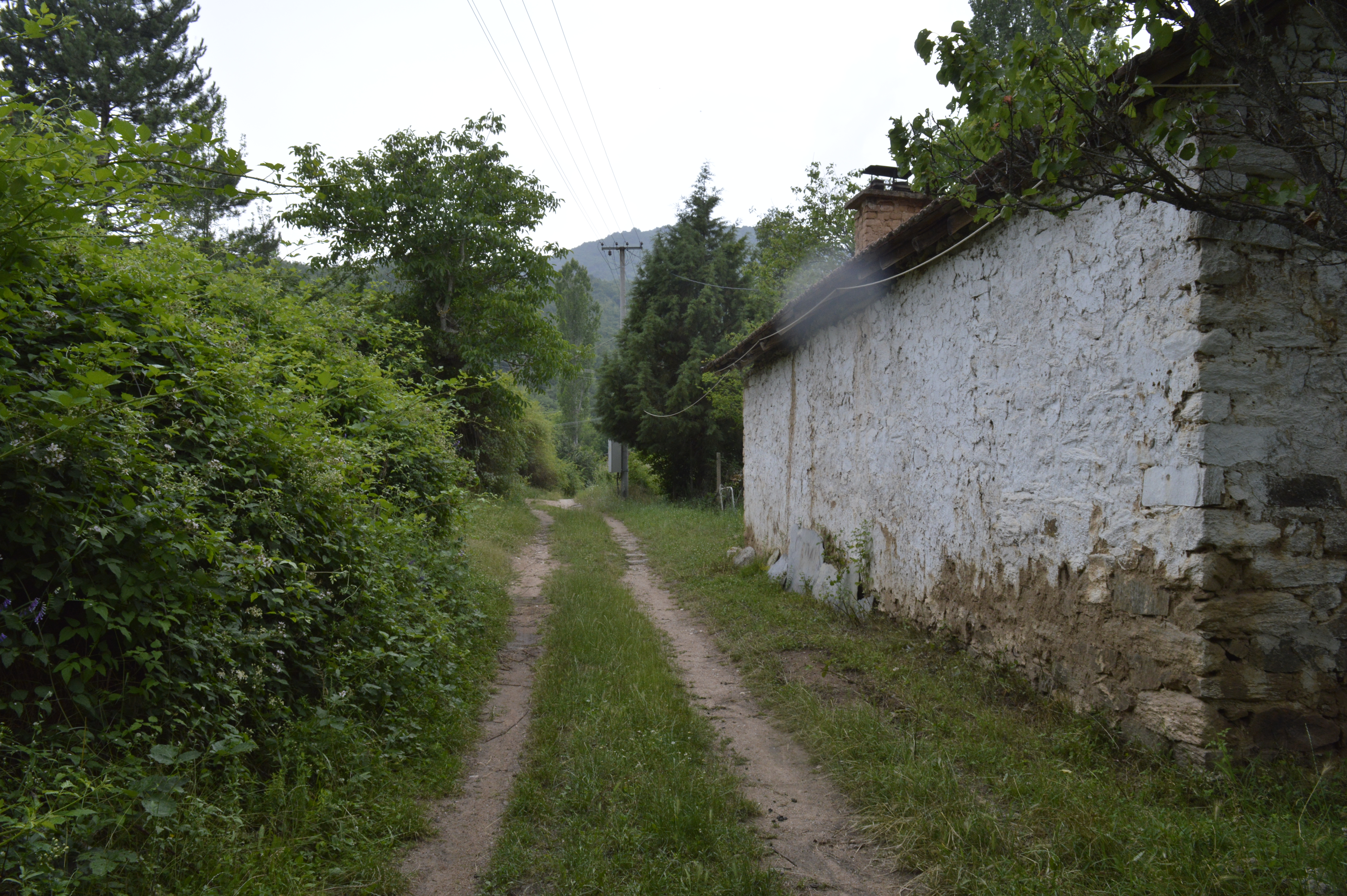 Street in the village Stepanci